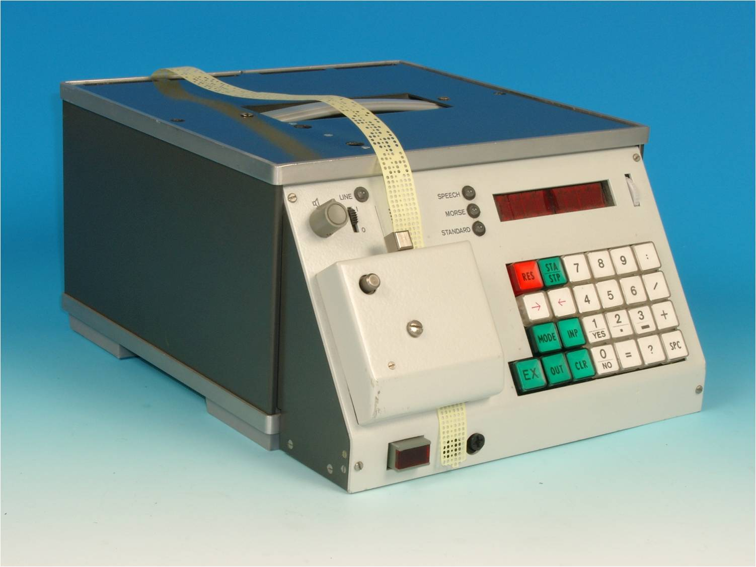 This former east-german MfS Hauptverwaltung Aufklärung Speech-Morse generator modulated the short wave transmitters (numbers stations) in Zeesen/GDR.